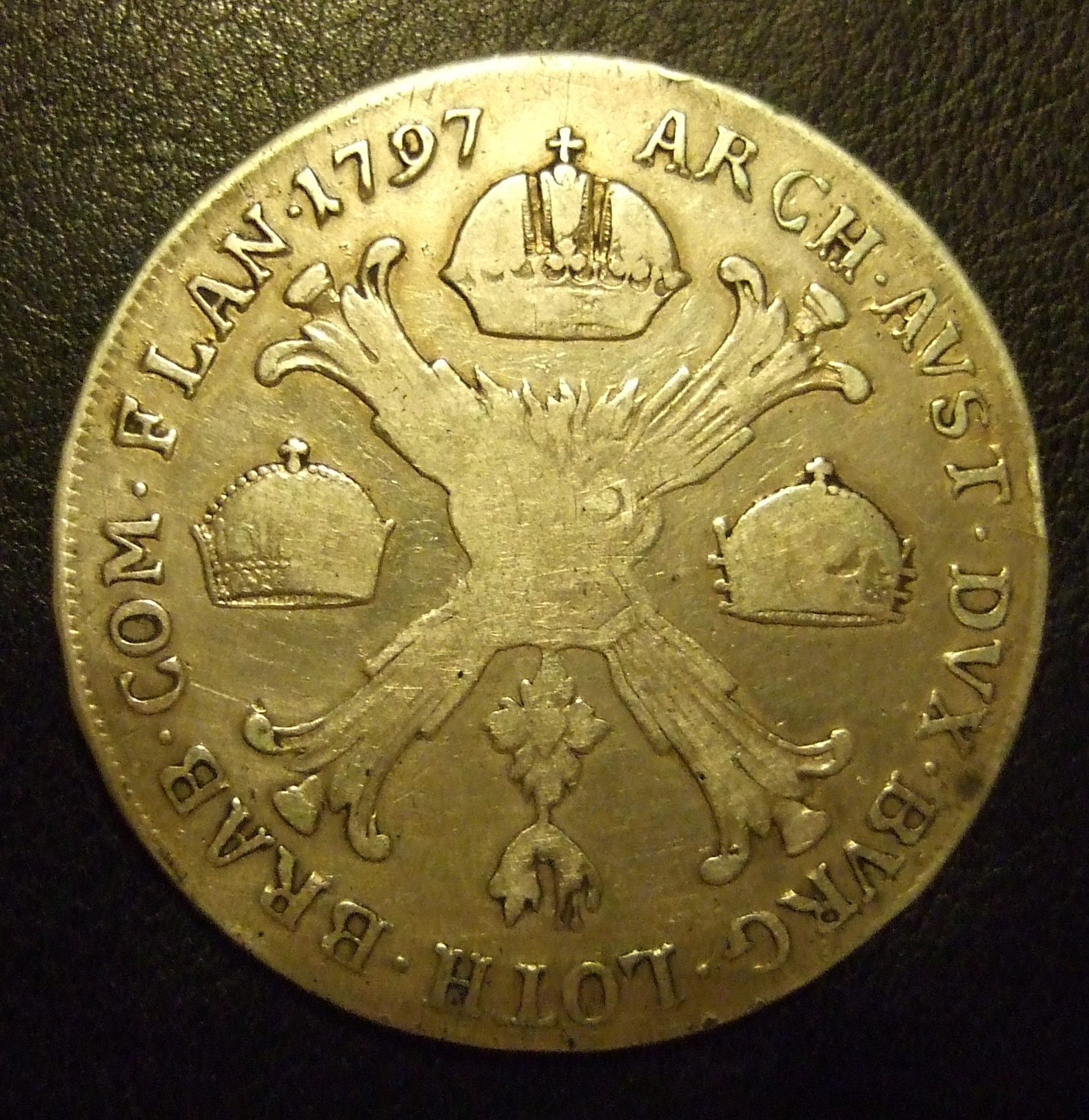 AUSTRIA-HUNGARY, FRANCIS II 1797 ---THALER a